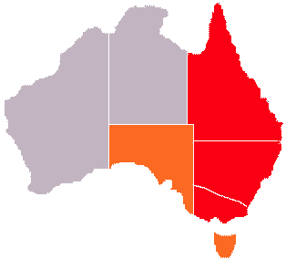 Eastern Australian states. Red are always defined as Easter, orange the term can sometimes be applied